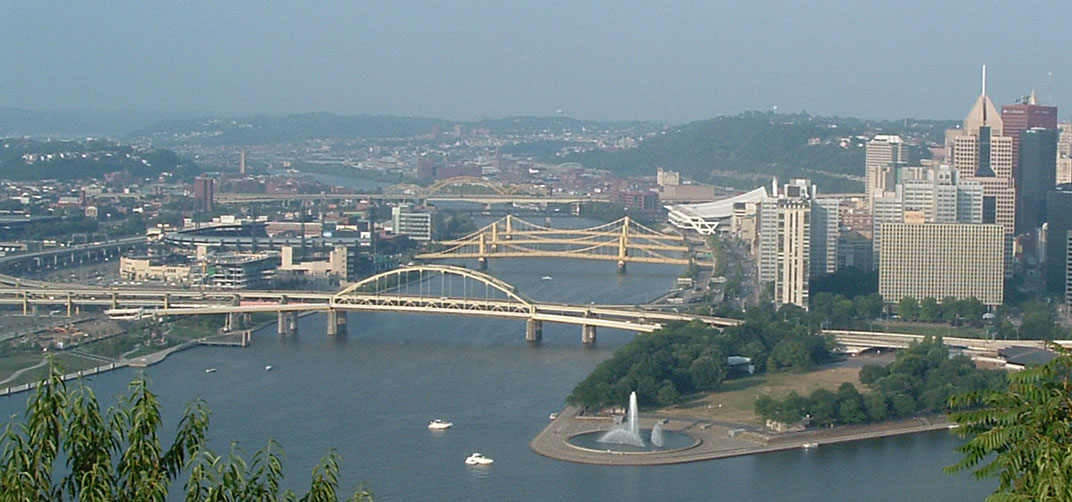 The Fort Duquesne Bridge in Pittsburgh. The Three Sisters are the next bridges upriver. This is a cropped version of :Image:DSCF0470.JPG.